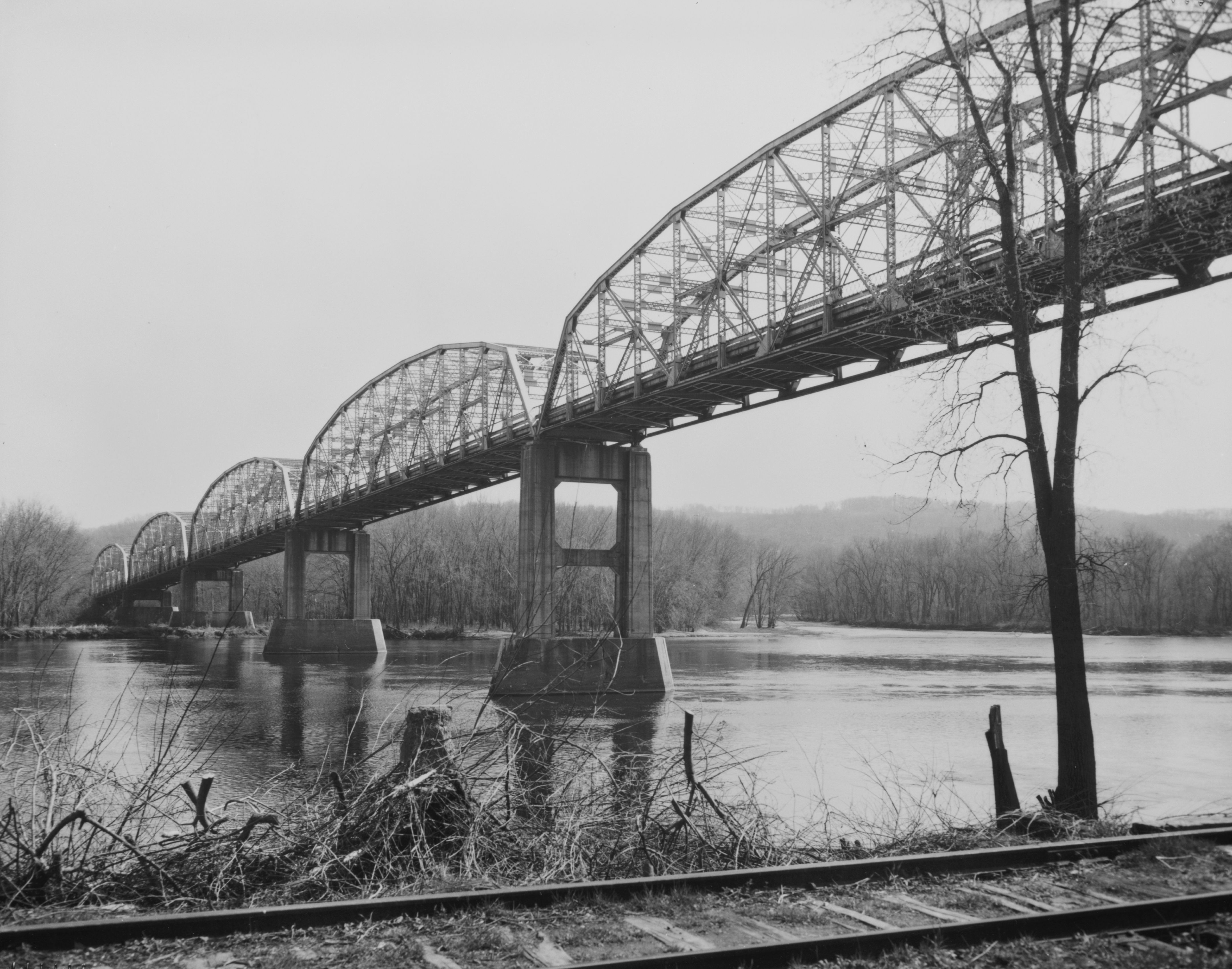 Bridgeport Bridge, Spanning Wisconsin River at US 18, Bridgeport, Crawford County, WI